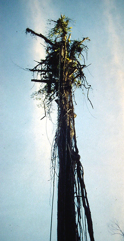 Photo made in the Sinnamary river basin on the Kursibo river (or Courcibo), in french Guiana, at the end of the rise of the waters induced by the dam EDF de Petit saut, December 1995. All the trees drowned by the dam had a root system and a metabolism not adapted to immersion ; they have lost all their leaves in a few months and have drowned, producing for some years the ghost forest or gray forest ; only a few epiphytic plants resistant to the sun have survived on the trees